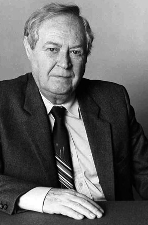 Gustav Brom (1921-1995) was a Czech jazz musician and conductor.